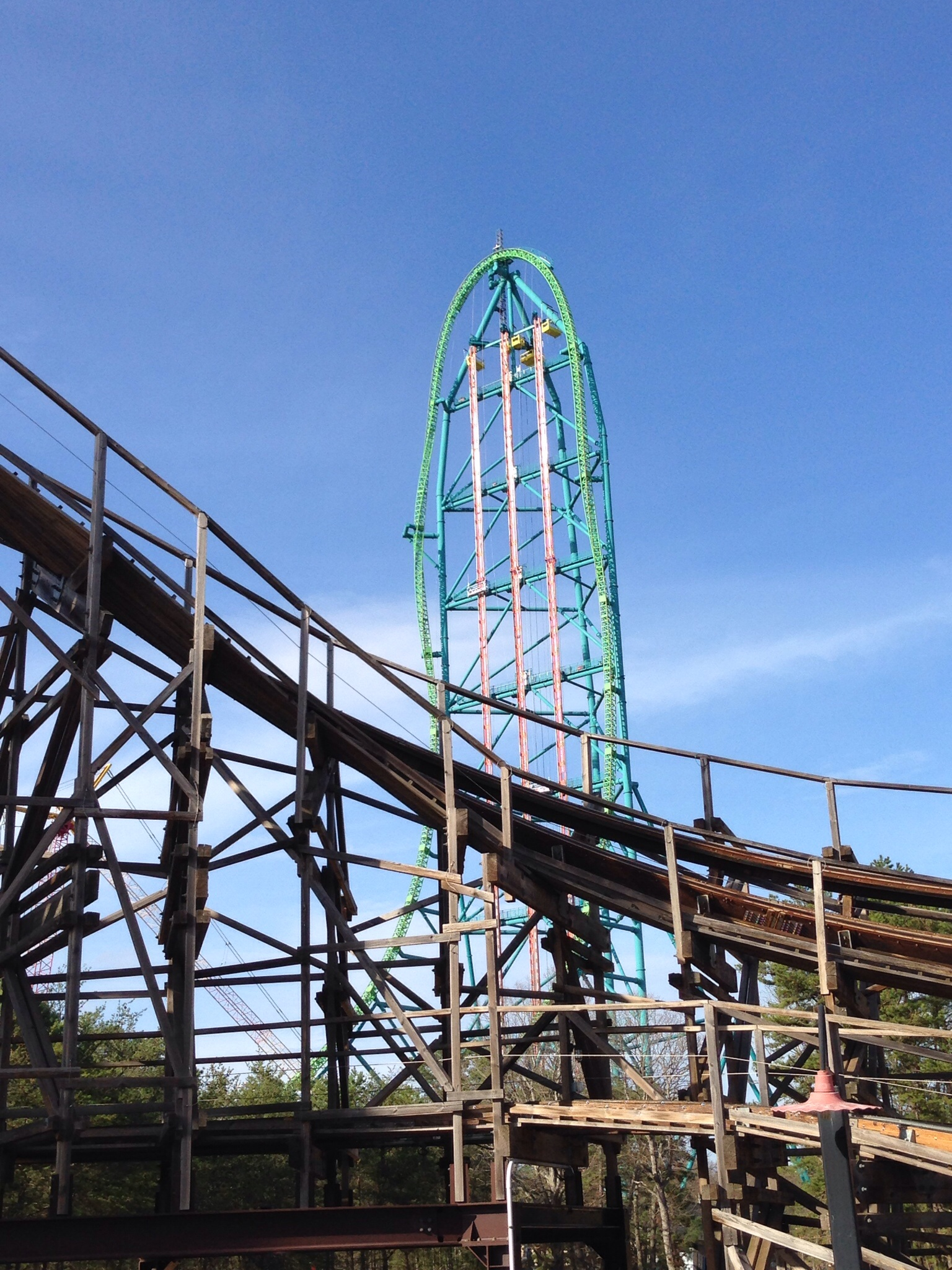 Zoomanjaro - Drop of Doom - Under Construction - April 14th 2014 - Image captured by Mariano A